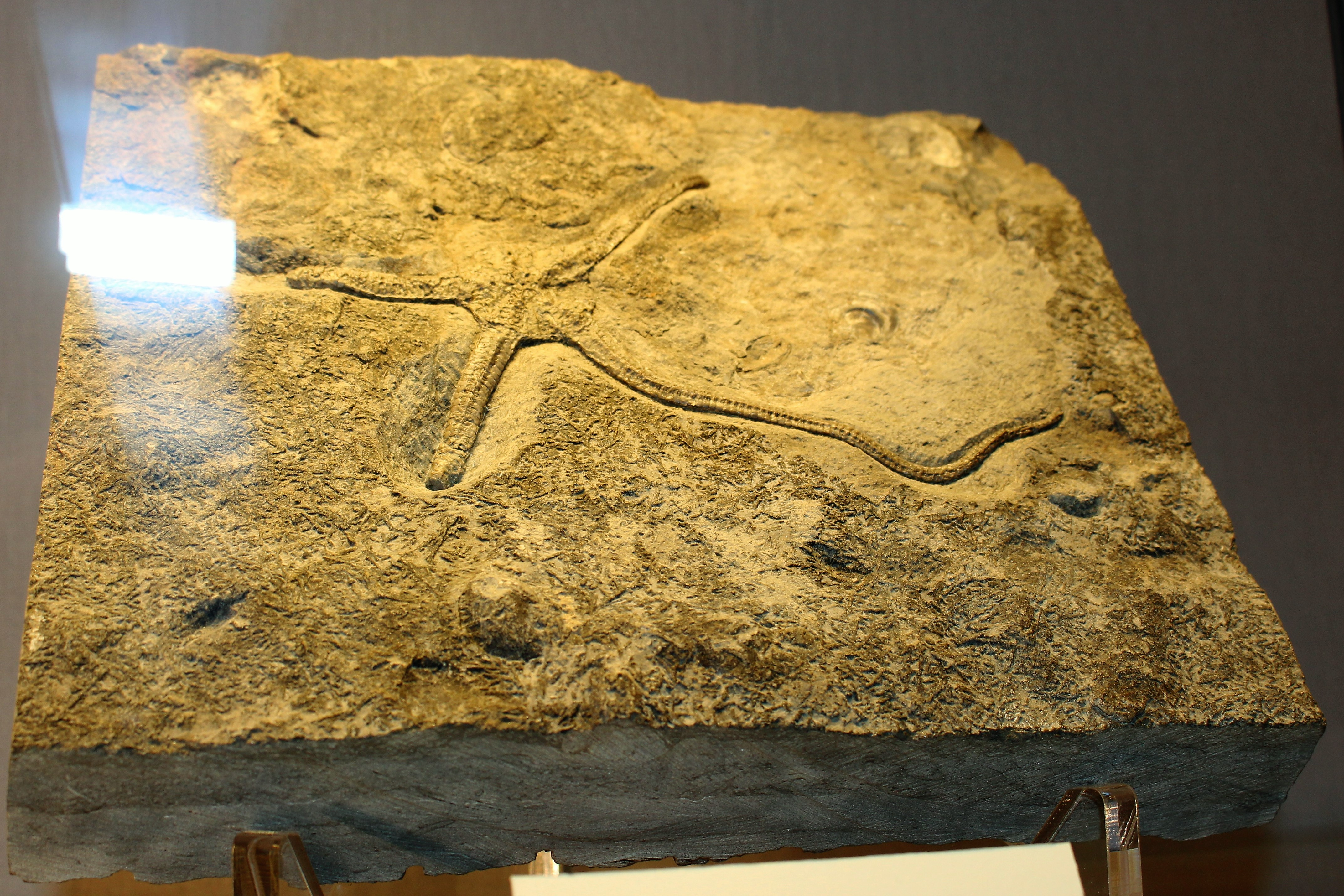 Palaeocoma milleri in the Rotunda Museum, Scarborough, England.